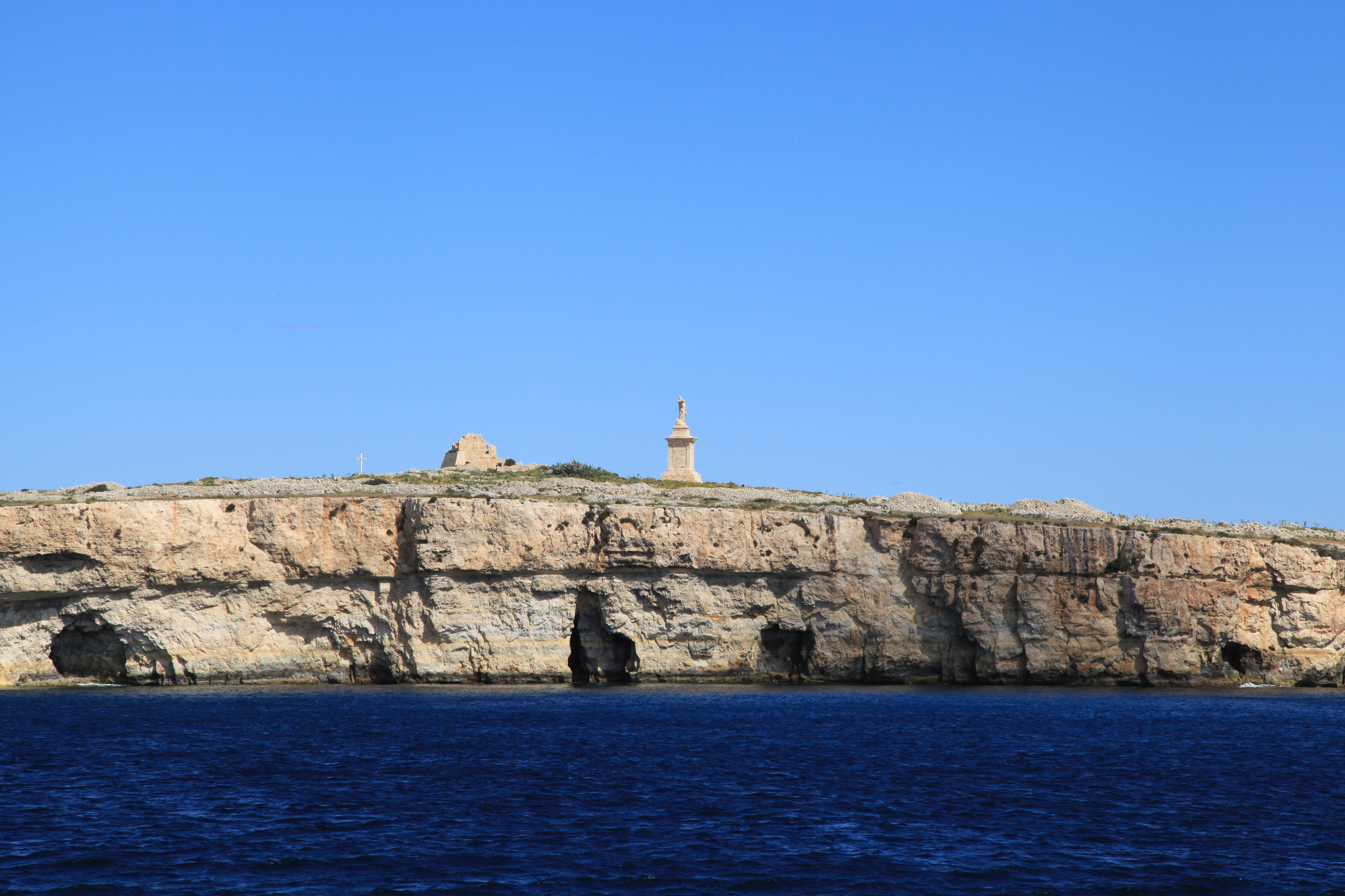 View from the Keppel (IMO 8434415) to the St Paul's Islands in Mellieħa, Malta